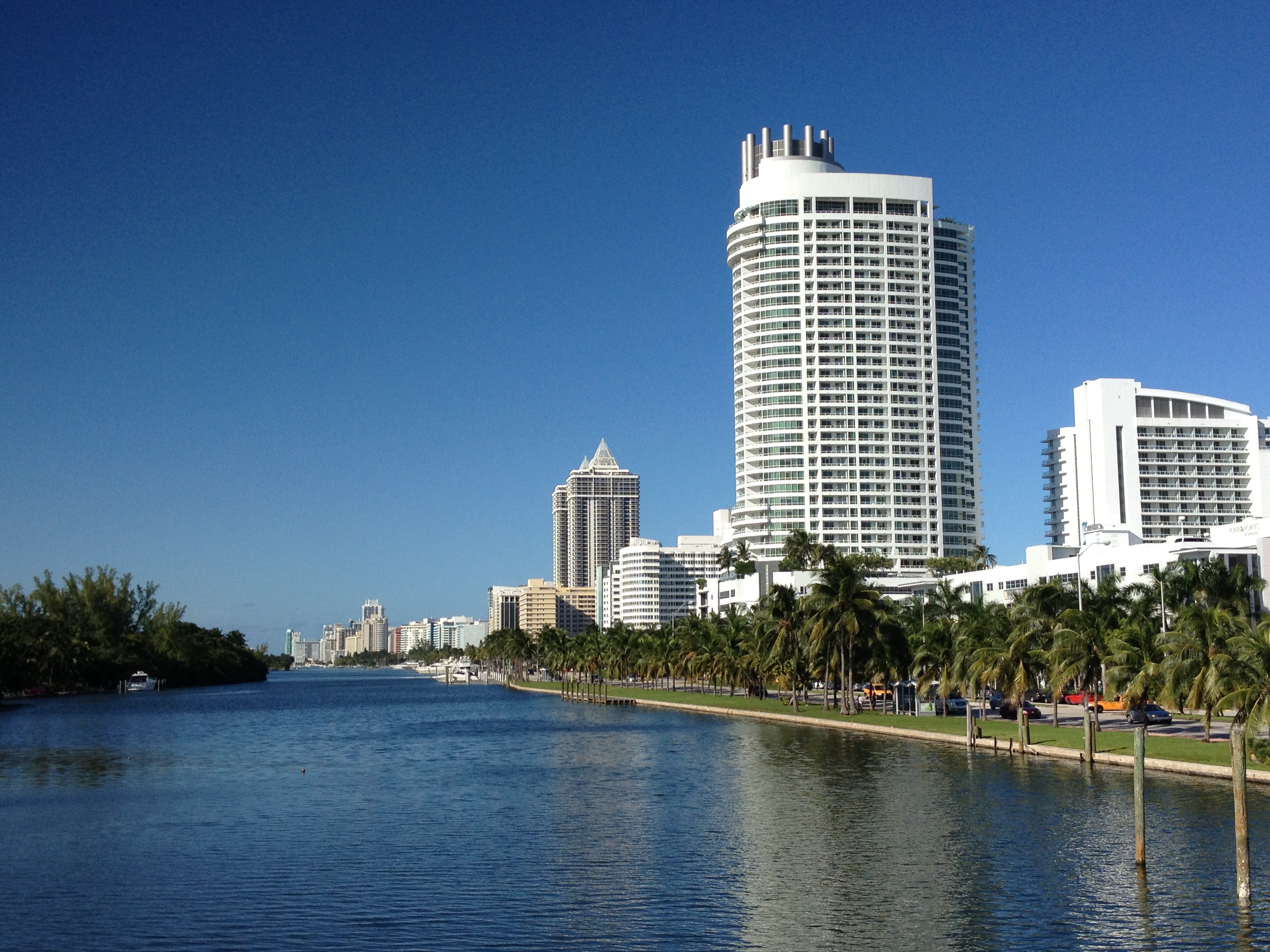 Collins Waterfront Architectural District, Bounded by 24th St., Atlantic Ocean, Indian Creek Dr., Pine Tree Dr.